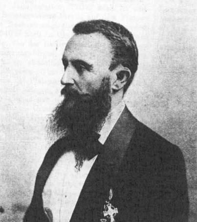 Richard Parkinson